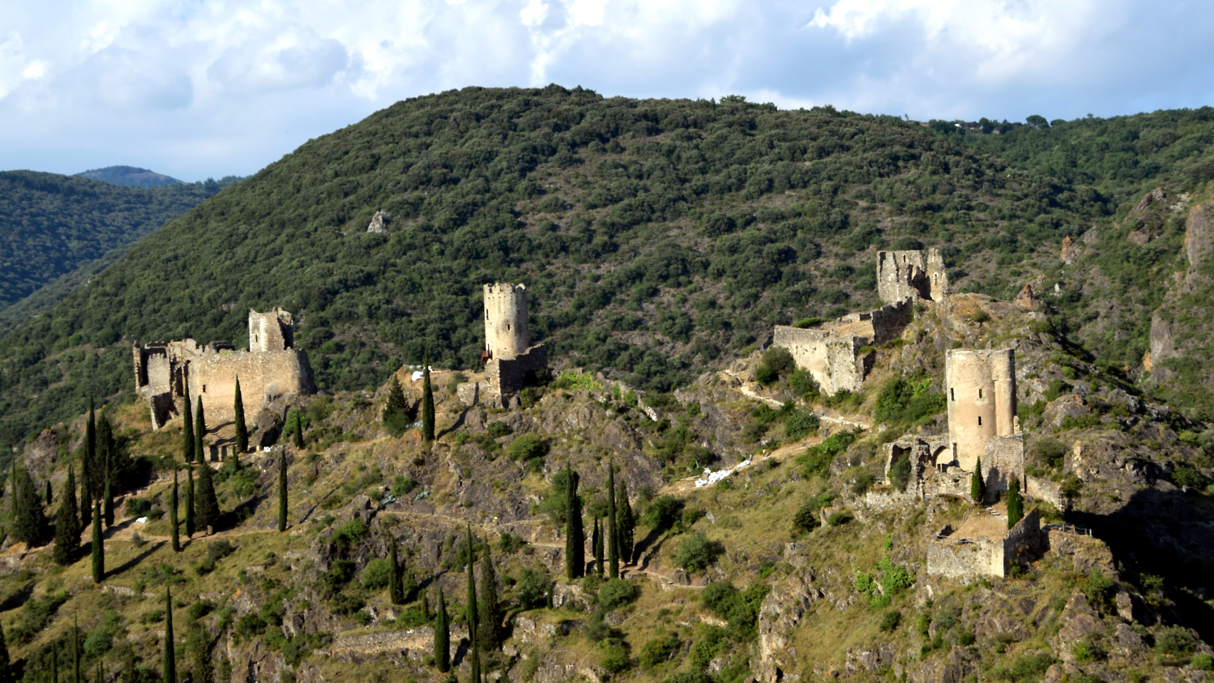 Castles of Lastours